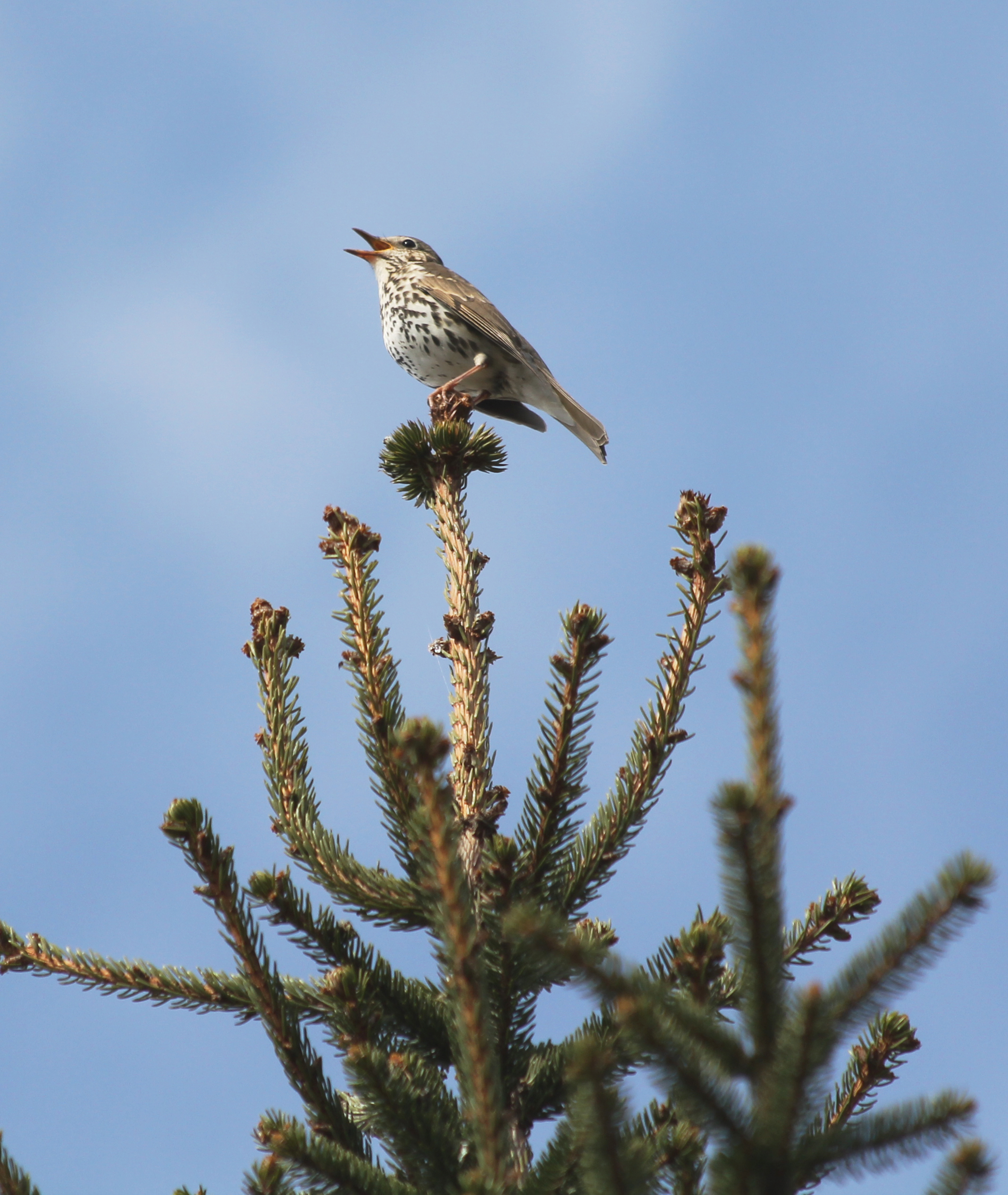 Bird Song Thrush (Turdus philomelos, east Bohemia, Czech Republic